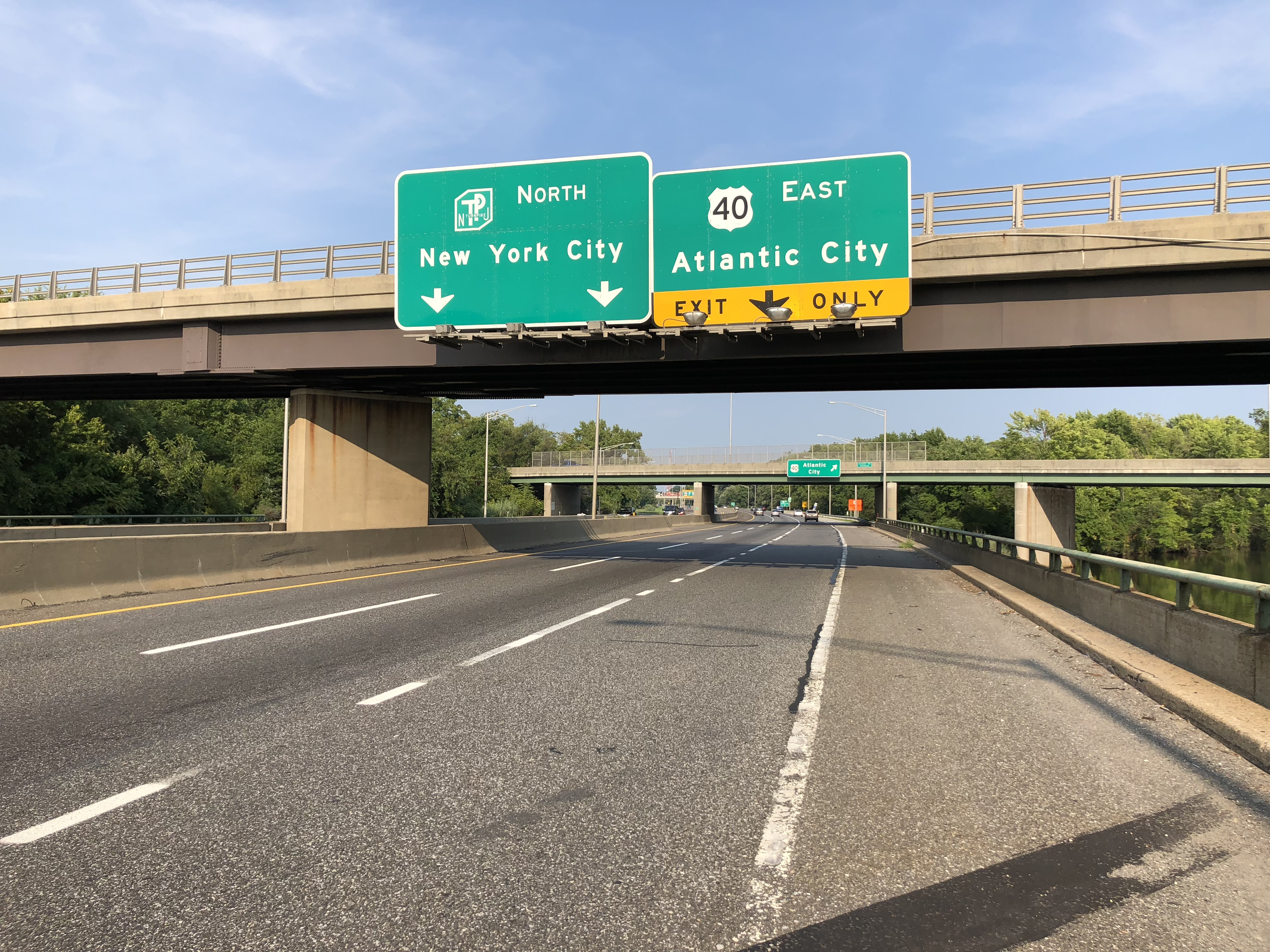 View east along U.S. Route 40 and north along New Jersey State Route 700 (New Jersey Turnpike) just southwest of the exit for U.S. Route 40 EAST (Atlantic City) in Carneys Point Township, Salem County, New Jersey